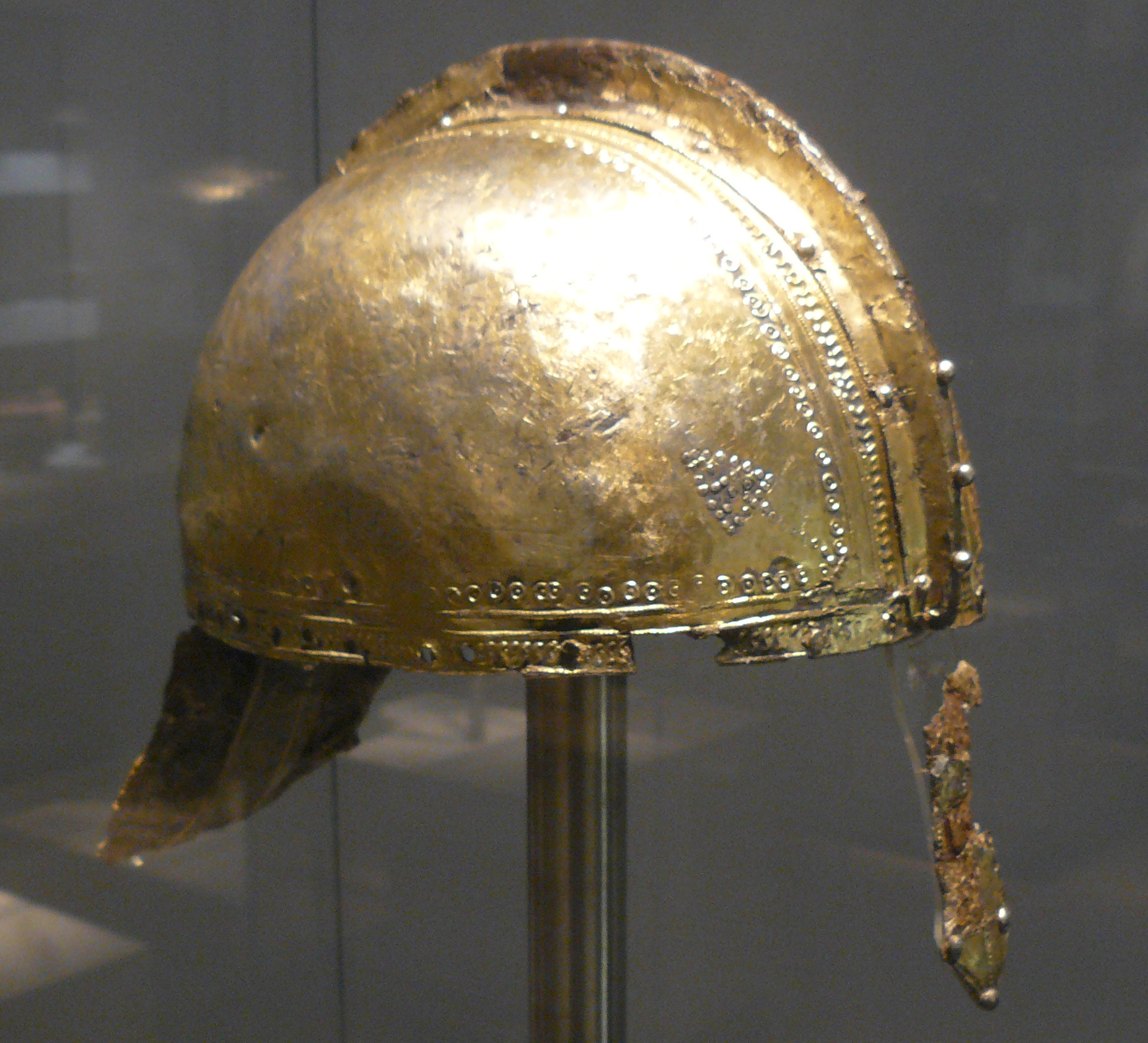 Late Roman Helmet (Kammhelm); 4th century. Found in the Wertach river (southern Germany). Germanisches Nationalmuseum Nuremberg, Germany.